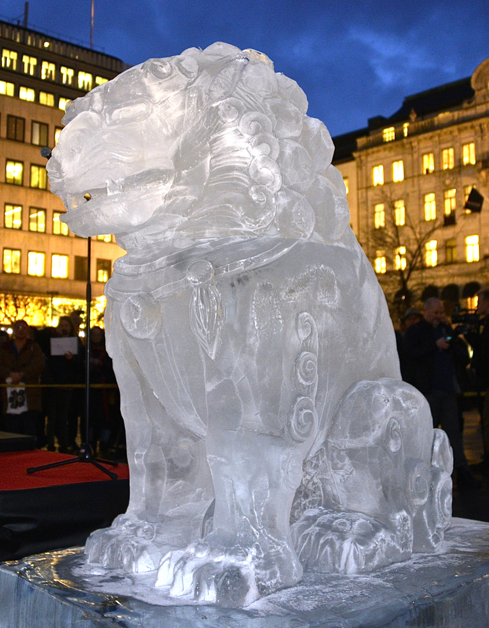 Ai Weiwei ice sculptures at Norrmalmstorg before the Stockholm International Film Festival 2014.